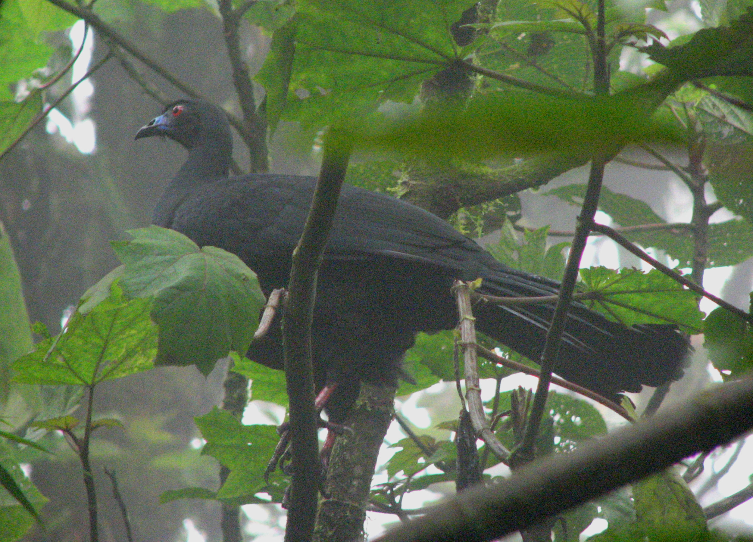 Black Guan (Chamaepetes unicolor) taken in Monteverde rain forest, Costa Rica